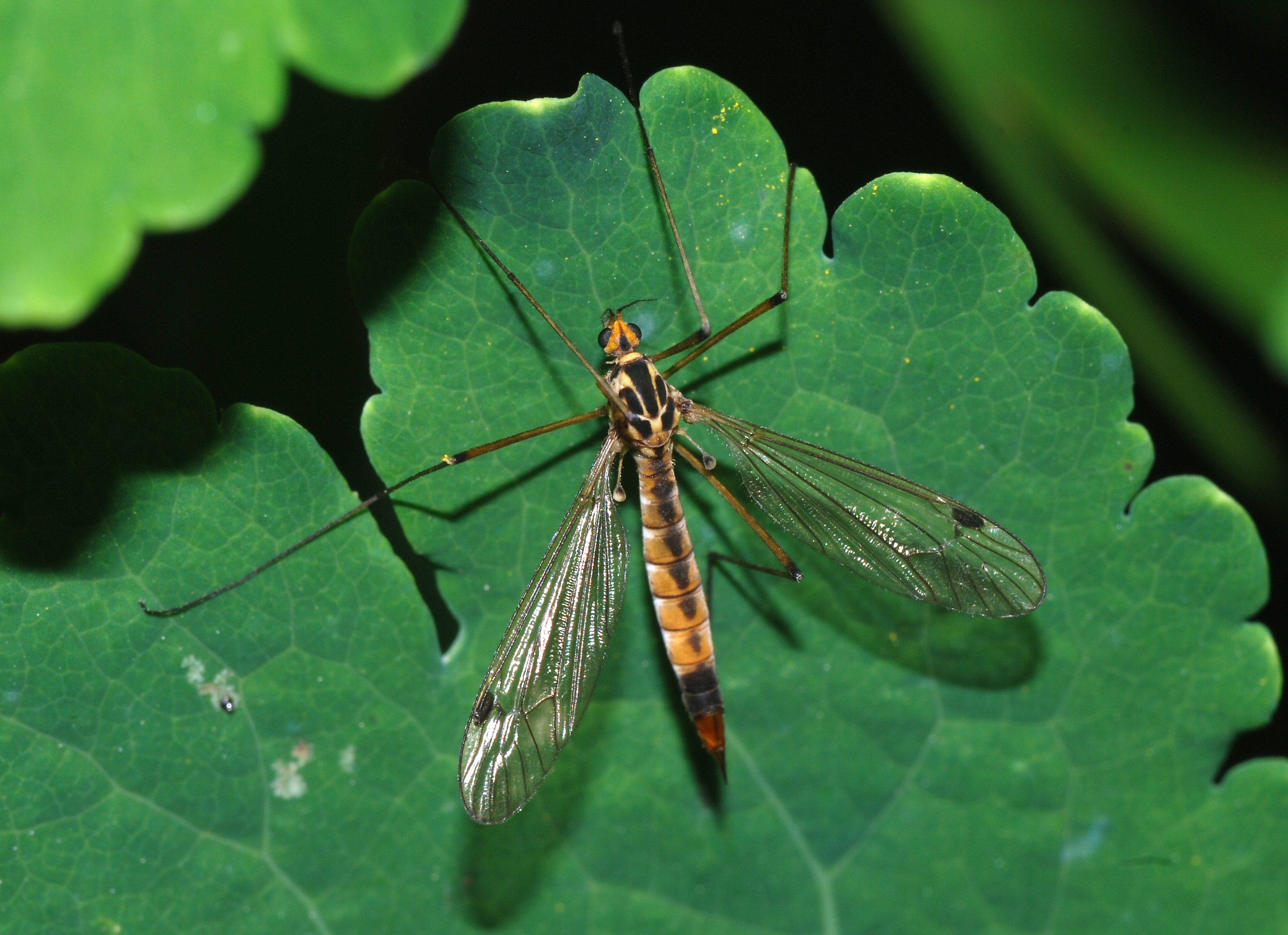 Female Spotted Crane-Fly